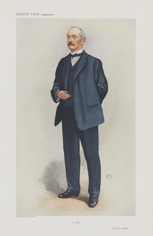 Men of the Day No.1229: Caricature of Sir JG Nutting Bt. Caption reads: "JG"